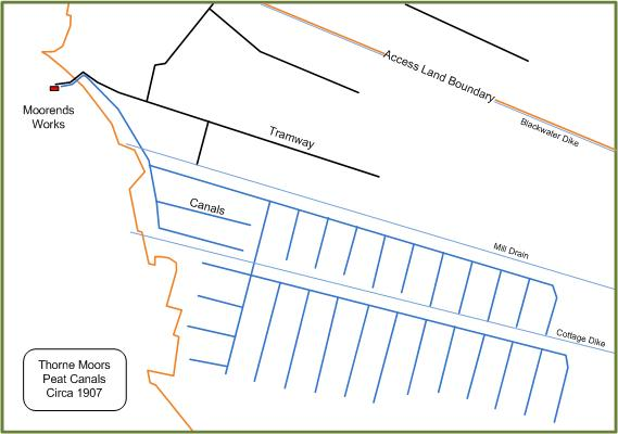 Map of the peat canals on Thorne Moors circa 1907, based on Ordnance Survey 1:10,560 map (1907)